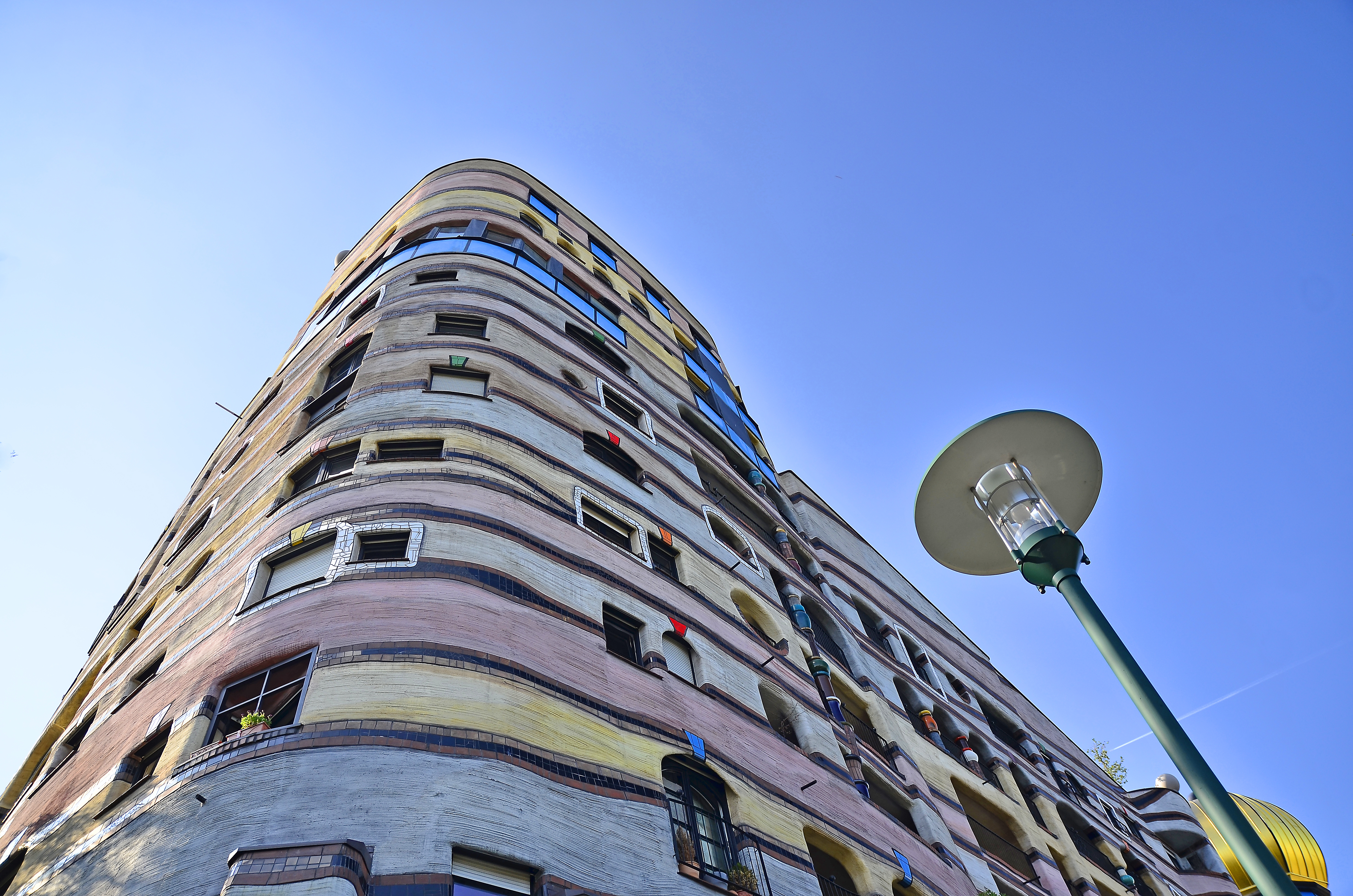 Darmstadt Waldspirale House of Friedensreich Hundertwasser